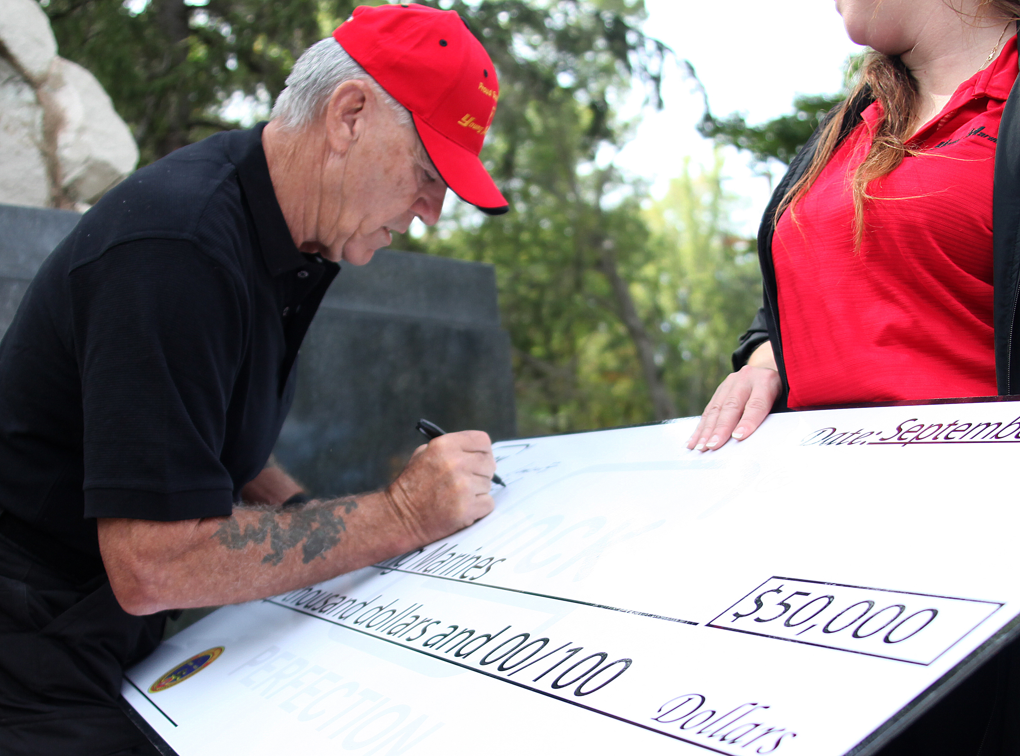 R. Lee Ermey autographs the check of $50,000 donated to the Young Marines by GLOCK, Inc. Ermey is a spokesman for both GLOCK and the Young Marines and played an important role in the their relationship.